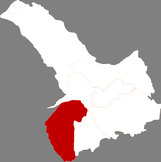 Locator map of Naiman Banner in Tongliao, Inner Mongolia, China